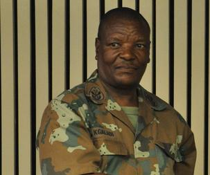 Mothusi Kgaladi, Sergeant Major of the South African Army, hosting U.S. Army Africa (USARAF) Command Sergeant Major Hu Rhodes